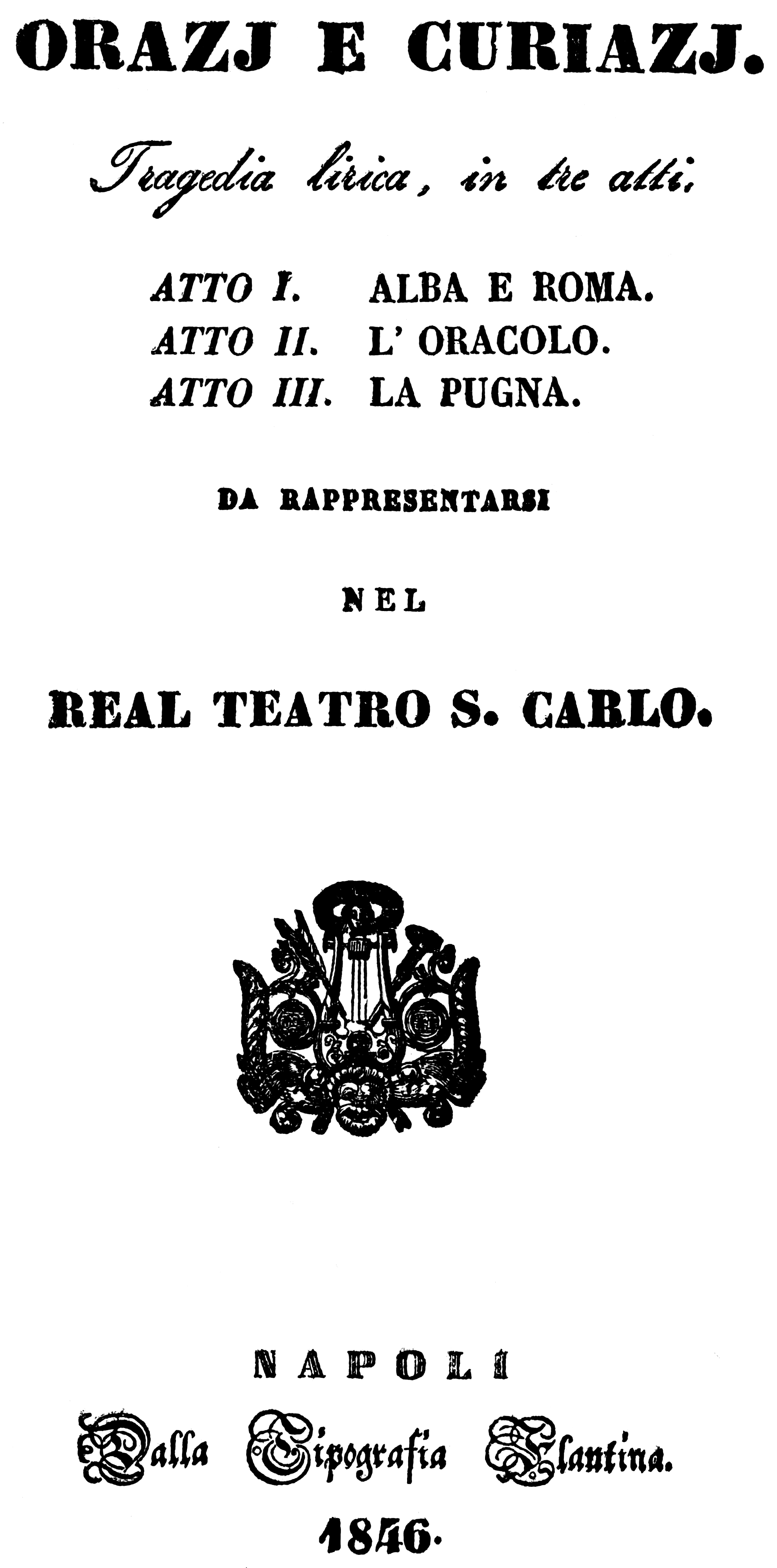 Saverio Mercadante - Orazi e Curiazi - titlepage of the libretto - Naples 1846